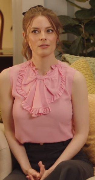 Do Melissa McCarthy and the cast of Life Of The Party know their Freshers from their Pot Noodles? The cast of the new comedy take the ultimate UK uni life quiz to see how their US college knowledge stacks up against UK uni life.